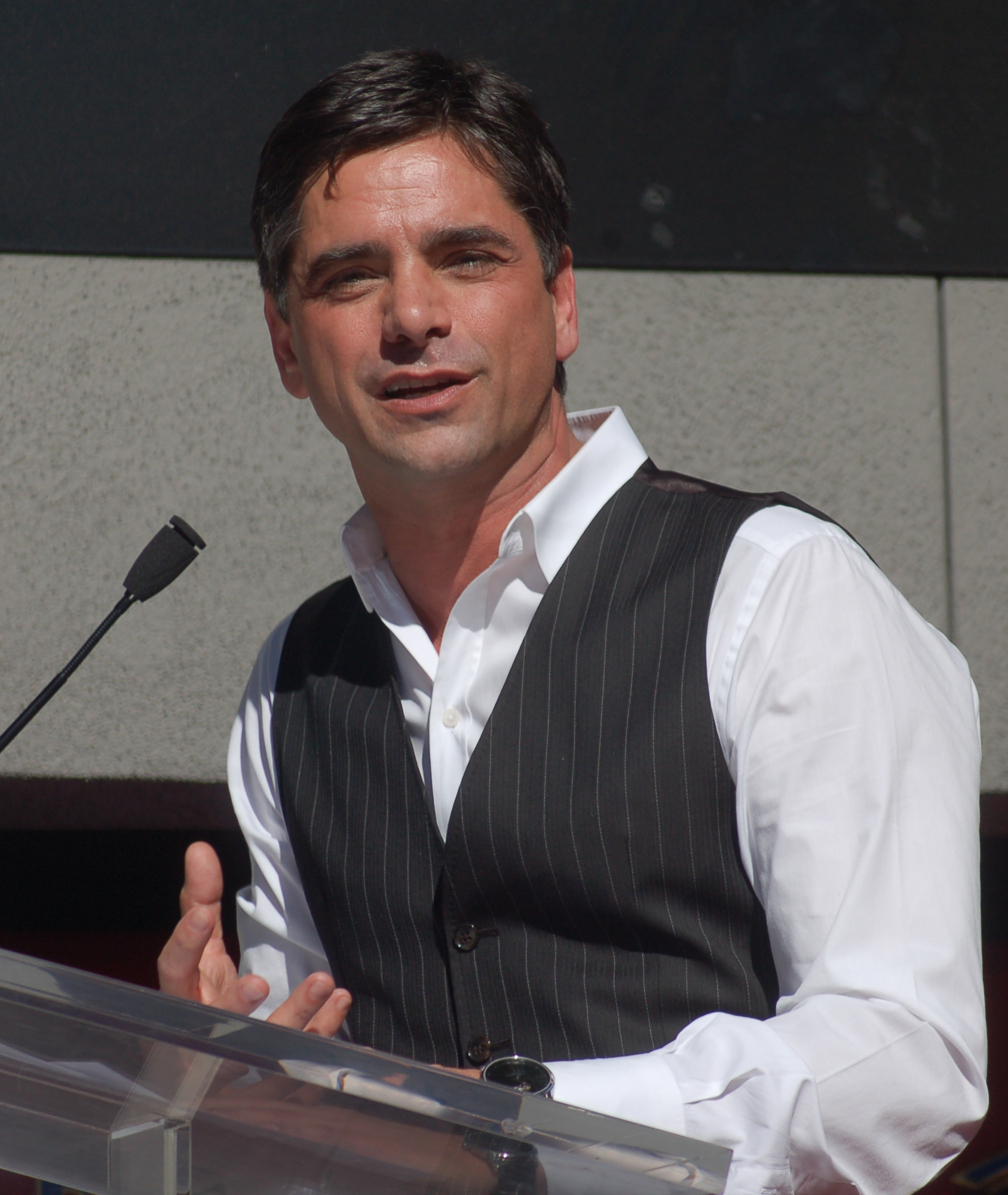 John Stamos speaking during a ceremony to receive his star on the Hollywood Walk of Fame.